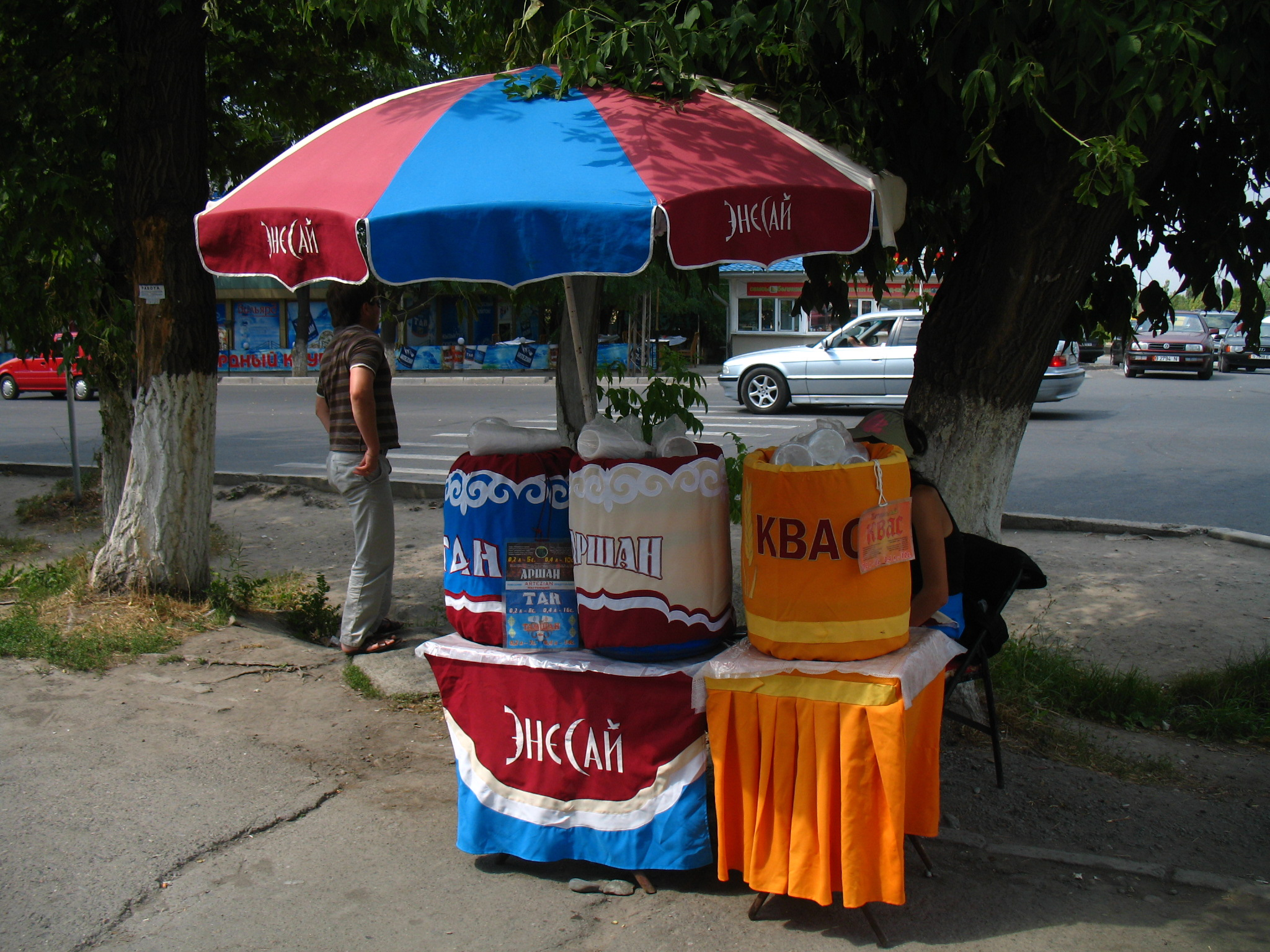 Enesay products being sold on Gorkij street in Bishkek, Kyrgyzstan. Кыргызча: Энесай компаниясынын ичимдиктери Бишкек шаарынын Горький көчөсүнүн жээгинде сатылып жатат.